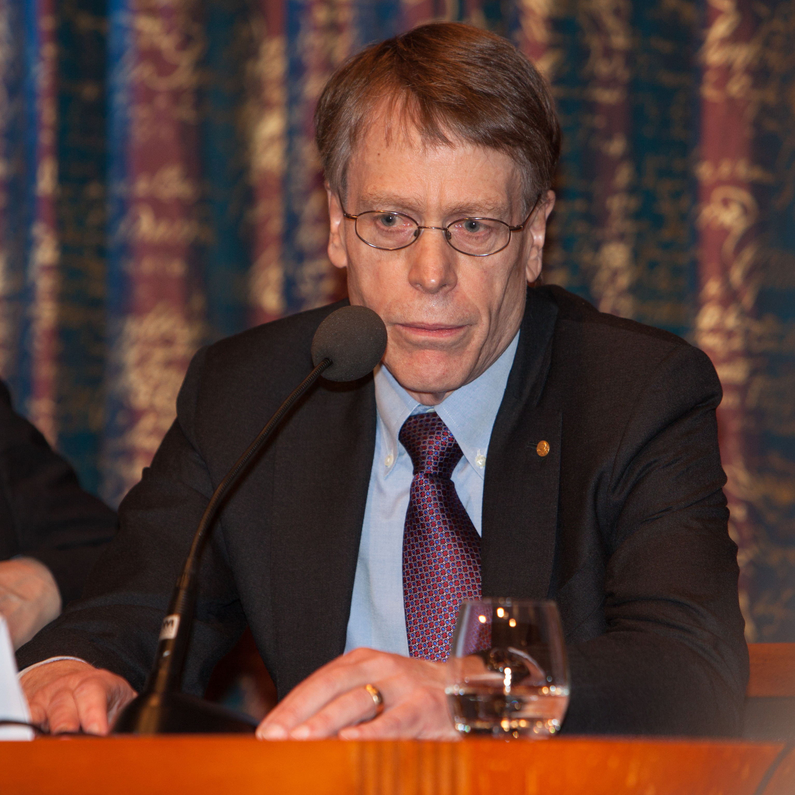 Nobel Laureates 2013 press conference at the Royal Swedish Academy of Sciences in December 2013